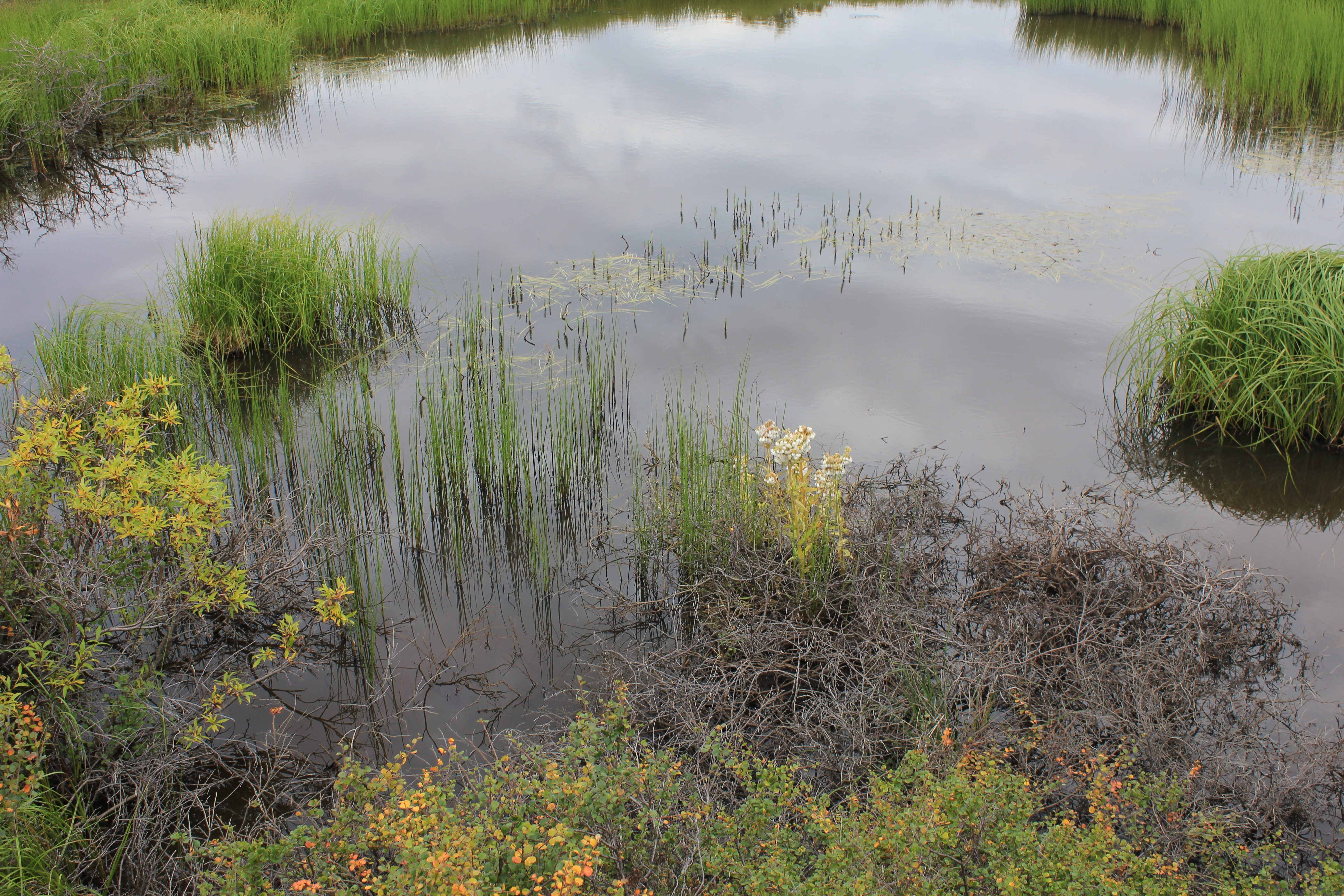 A thermo-karst melt pond adjacent to the road which accelerated the melting of permafrost. On the road from Nome beyond Pilgrim Hot Springs. Image ID: line5195, NOAA's America's Coastlines Collection Location: Alaska, Seward Peninsula Photo Date: 2010 August